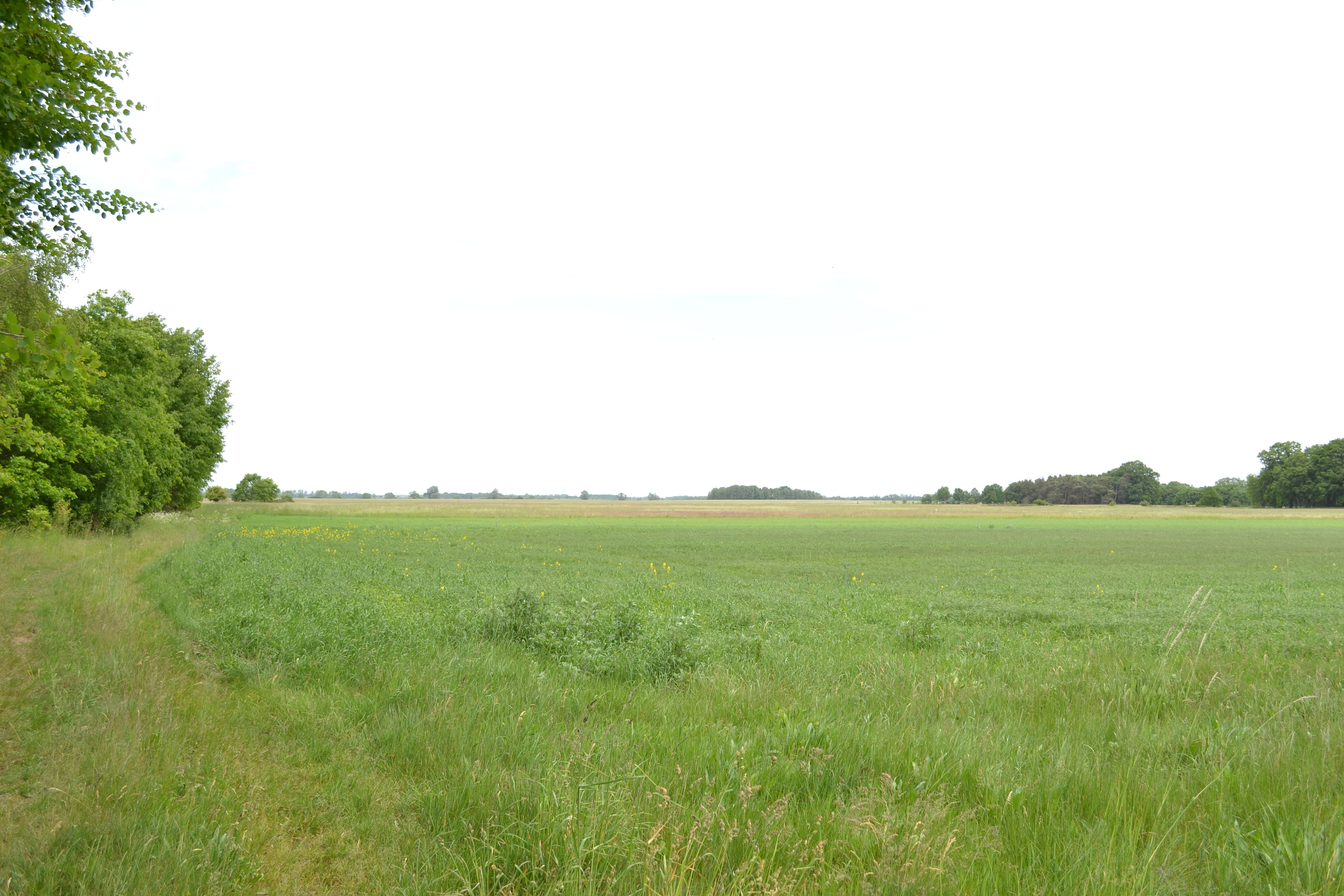 Habitat of the great bustard (Otis tarda) in the Havelländisches Luch, Brandenburg, Germany.